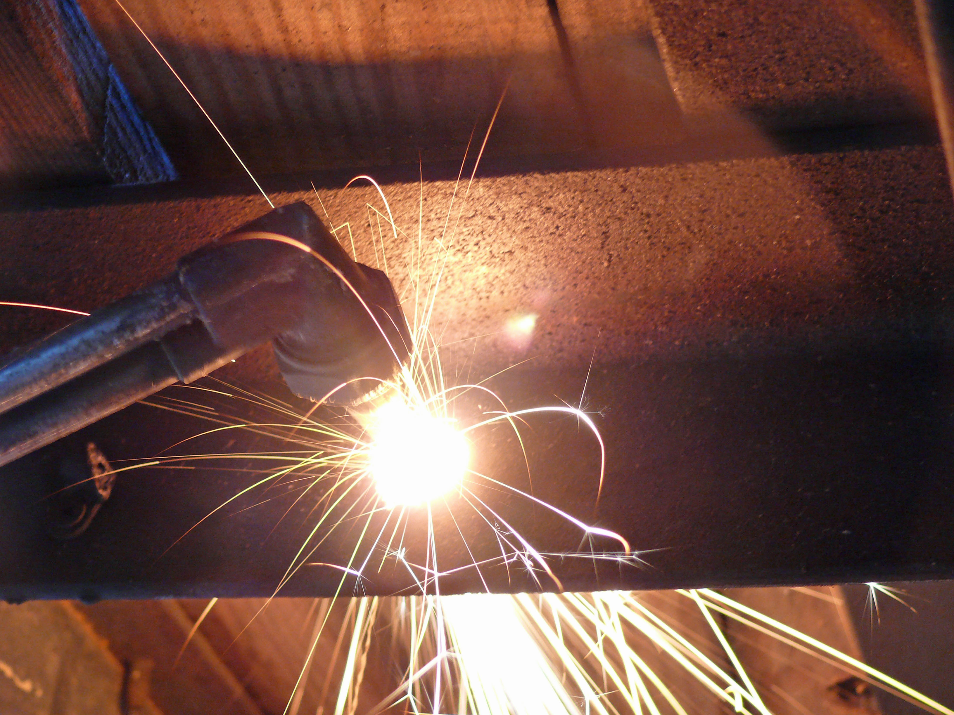 Cutting by acetylene torch